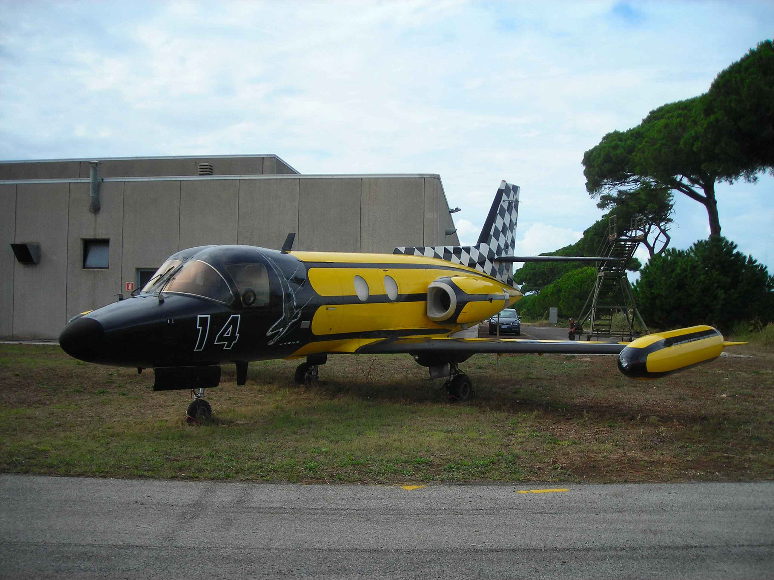 Piaggio PD.808, an executive aircraft used by the Italian Air Force. This is a special commemorative colour scheme. Picture taken during "Giornata Azzurra" 2006 (Italian Air Force airshow) at Pratica di Mare AFB, Italy.